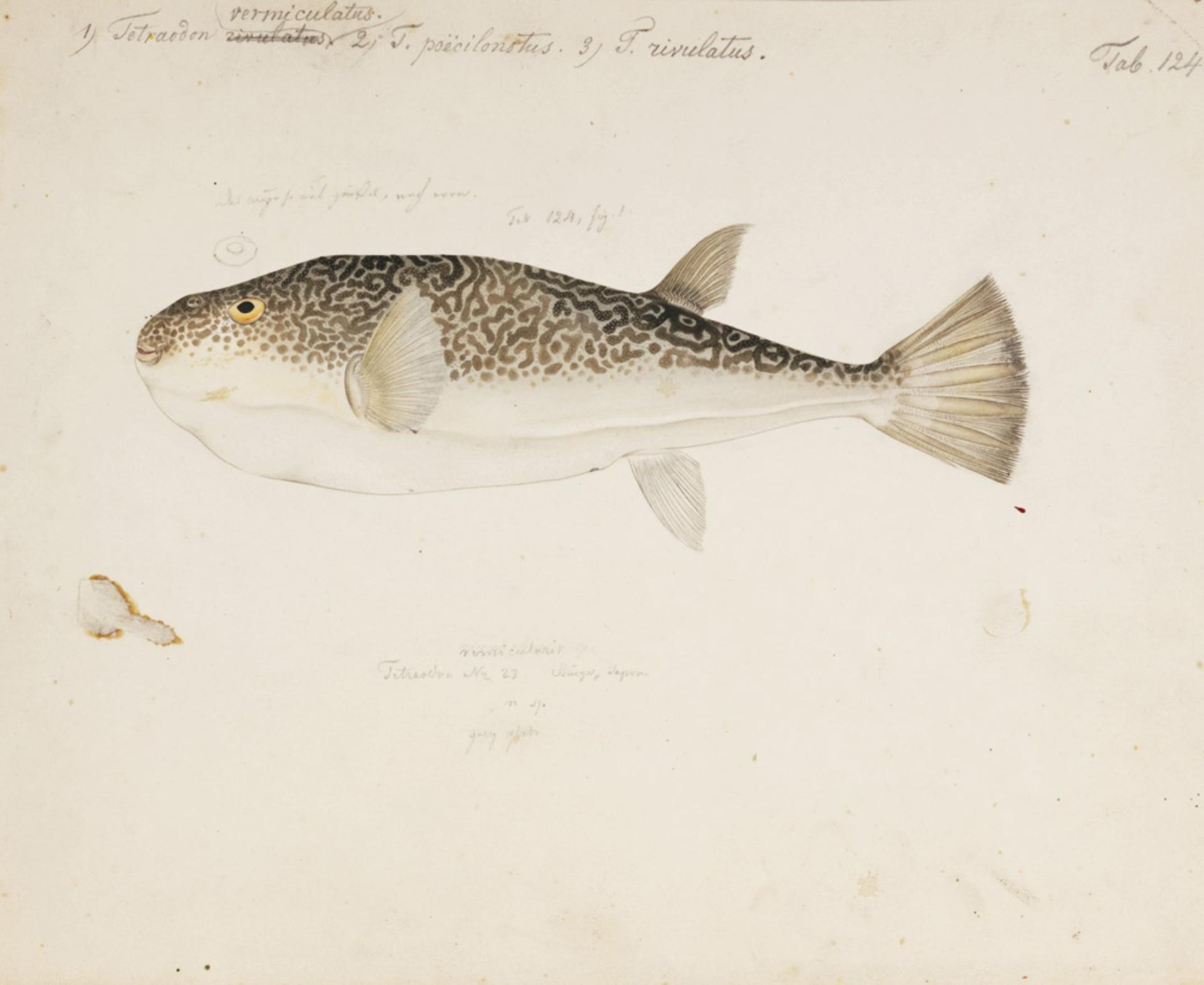 Takifugu vermicularis (Temminck and Schlegel)